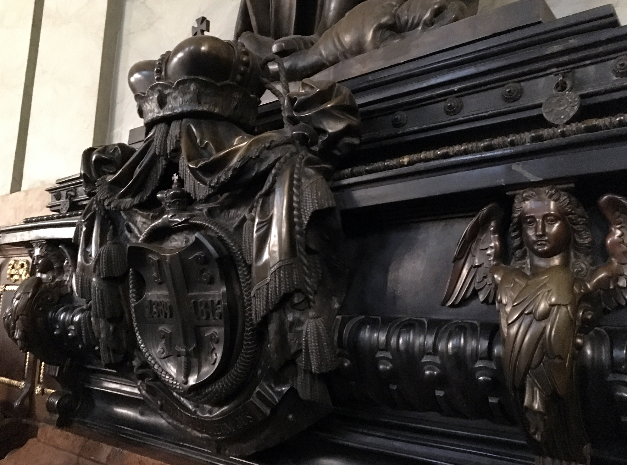 A detail featuring Serbian coat of arms, interior of St. Michael's Cathedral, Belgrade Srpski (latinica): Detalj sa srpskim grbom, Saborna crkva u Beogradu